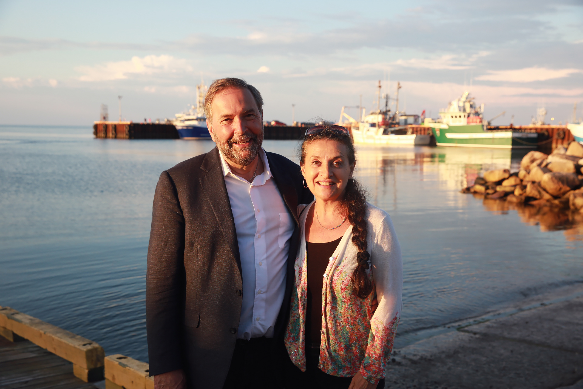 Tom Mulcair and wife Catherine Pinas in New Brunswick